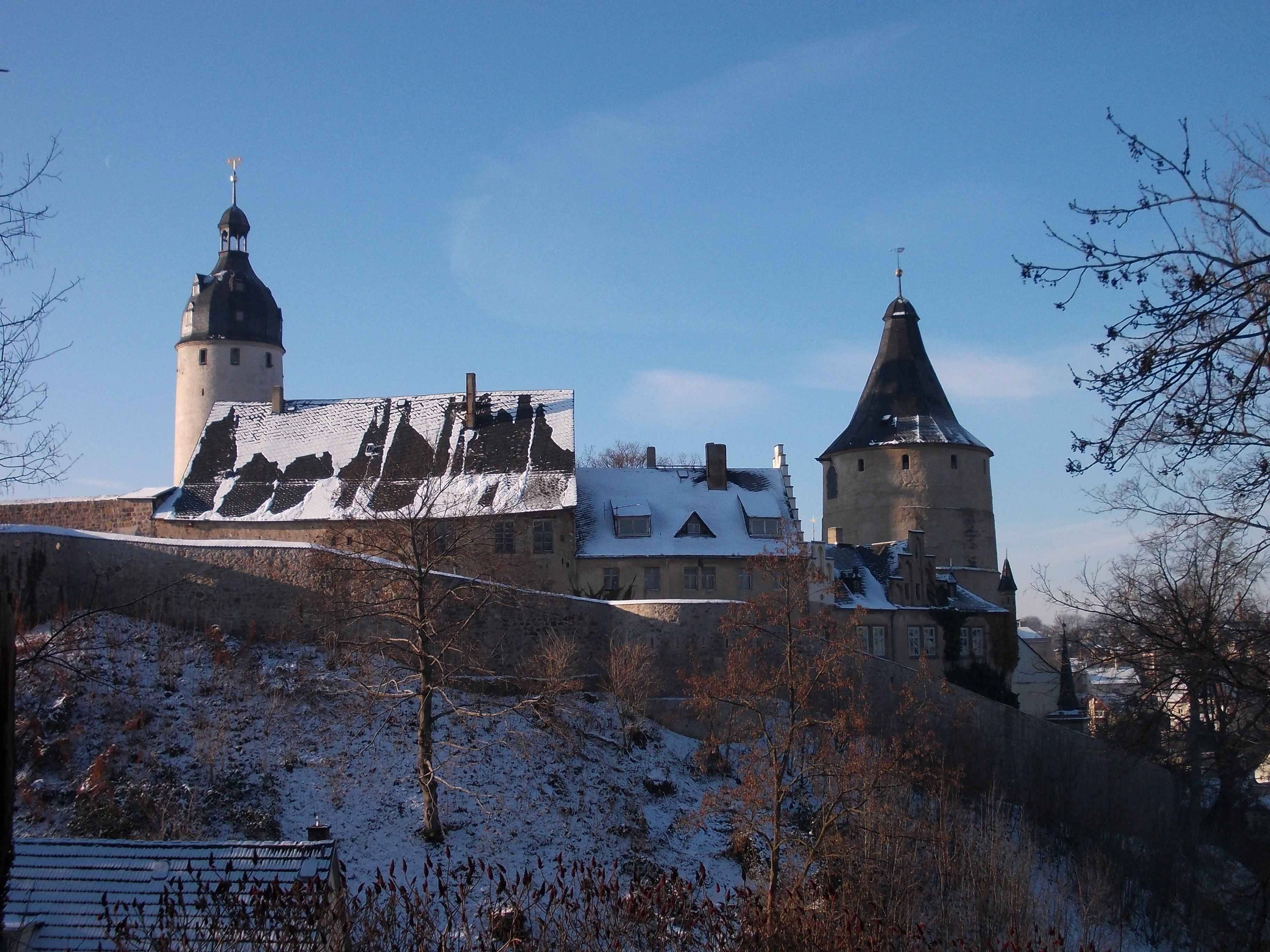 Altenburg Castle (Thuringia), view from the castle gardens